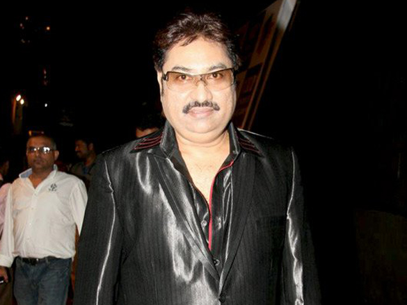 Kumar sanu